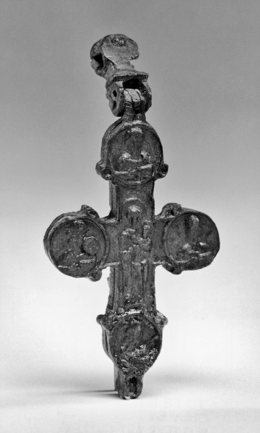 The front of this cross depicts the crucified Christ flanked by the Virgin and John the Evangelist, an archangel above, and a skull designating Adam's place of burial below the cross. The back contains an image of the Virgin and Child surrounded by medallions with Saints Peter and Paul and two bishop saints. Bronze pendant crosses, or "enkolpia," form the largest group of private devotional objects to survive from Byzantium in this period, and were also made in neighboring regions, such as Kievan Rus' (Ukraine).